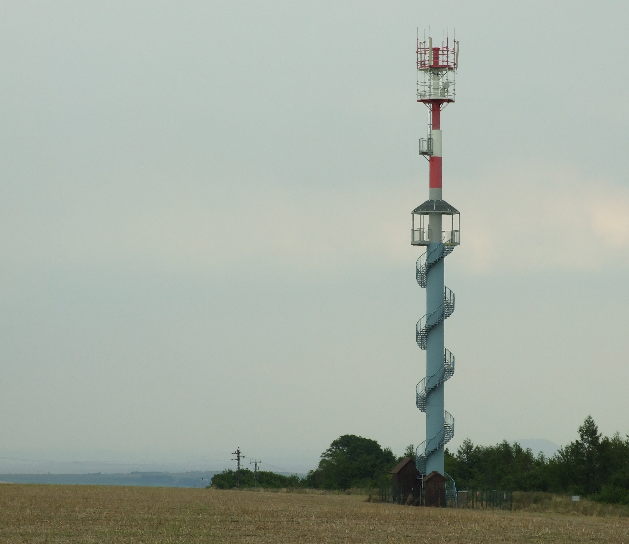 Lookout tower near the town of Líský, Central Bohemian Region, CZ